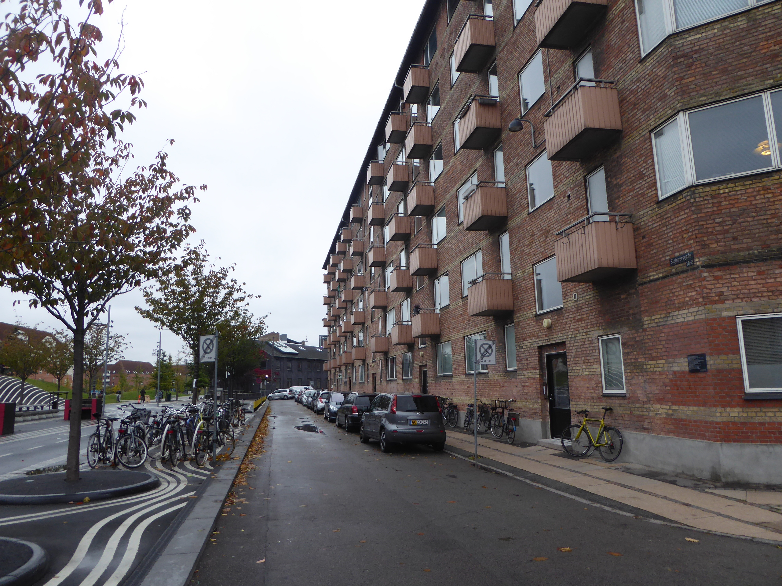 The street Slejpnersgade in Nørrebro in Copenhagen.